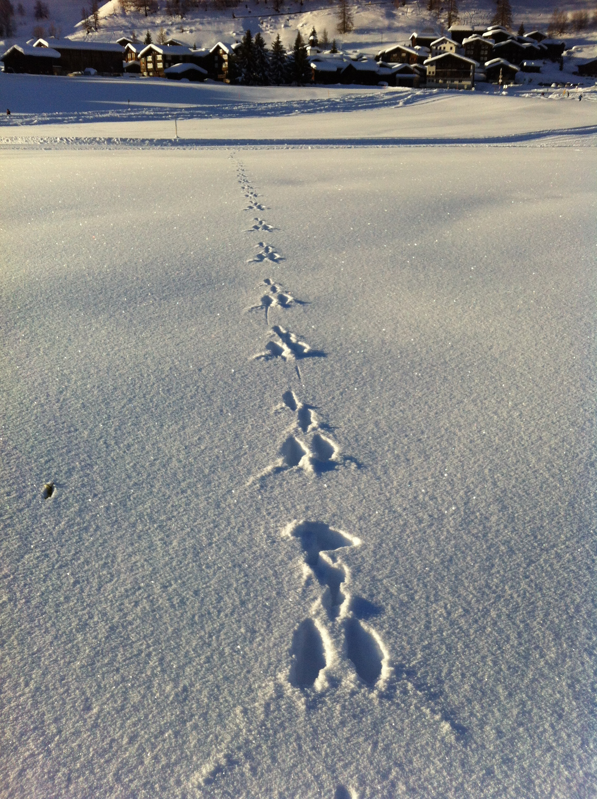 Tracks of mountain hare (Lepus timidus) in Geschinen, Goms, Canton of Valais, Switzerland